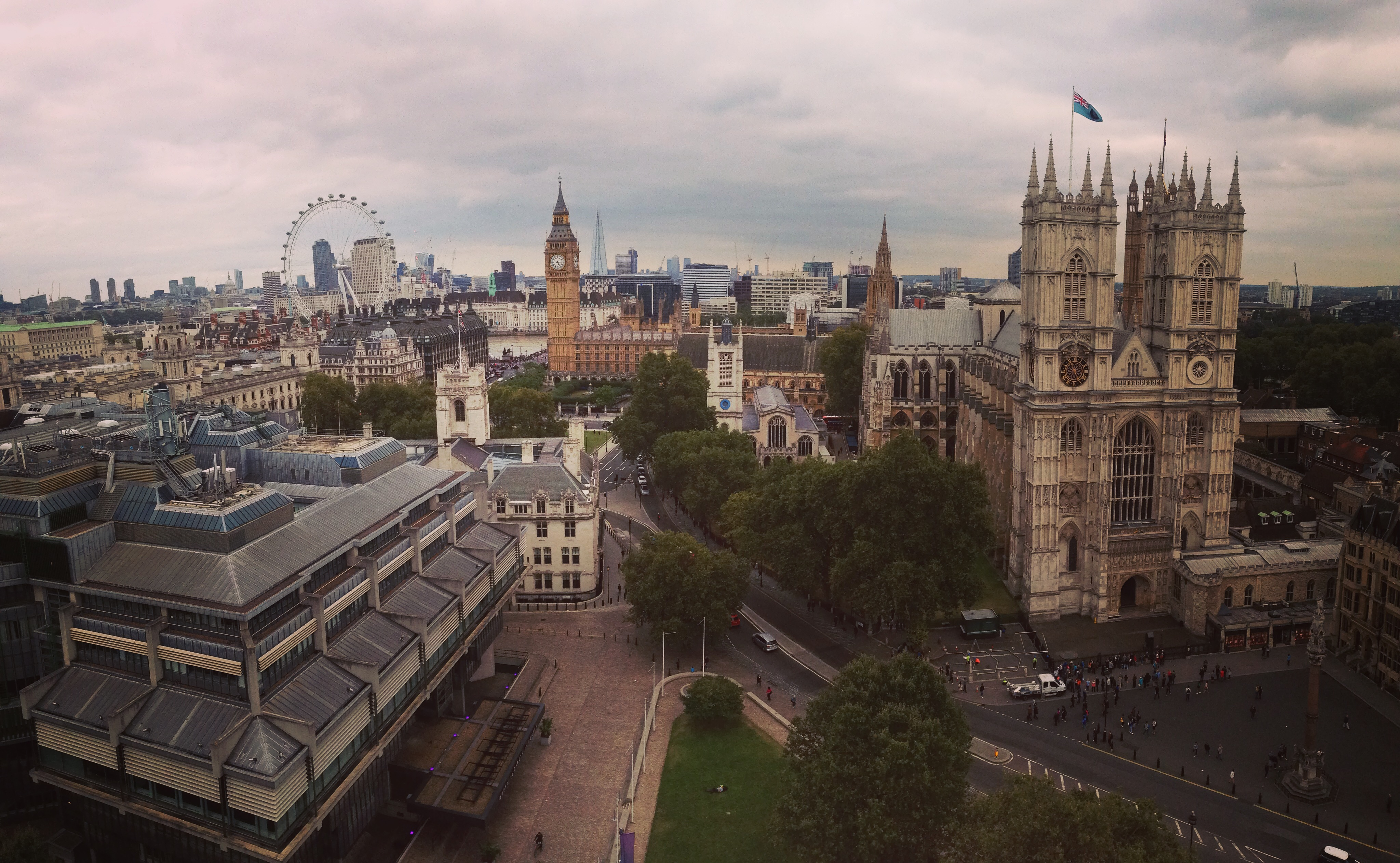 This is a view of London from the roof of the Methodist Central Hall, looking to the east. Taken in September 2016.